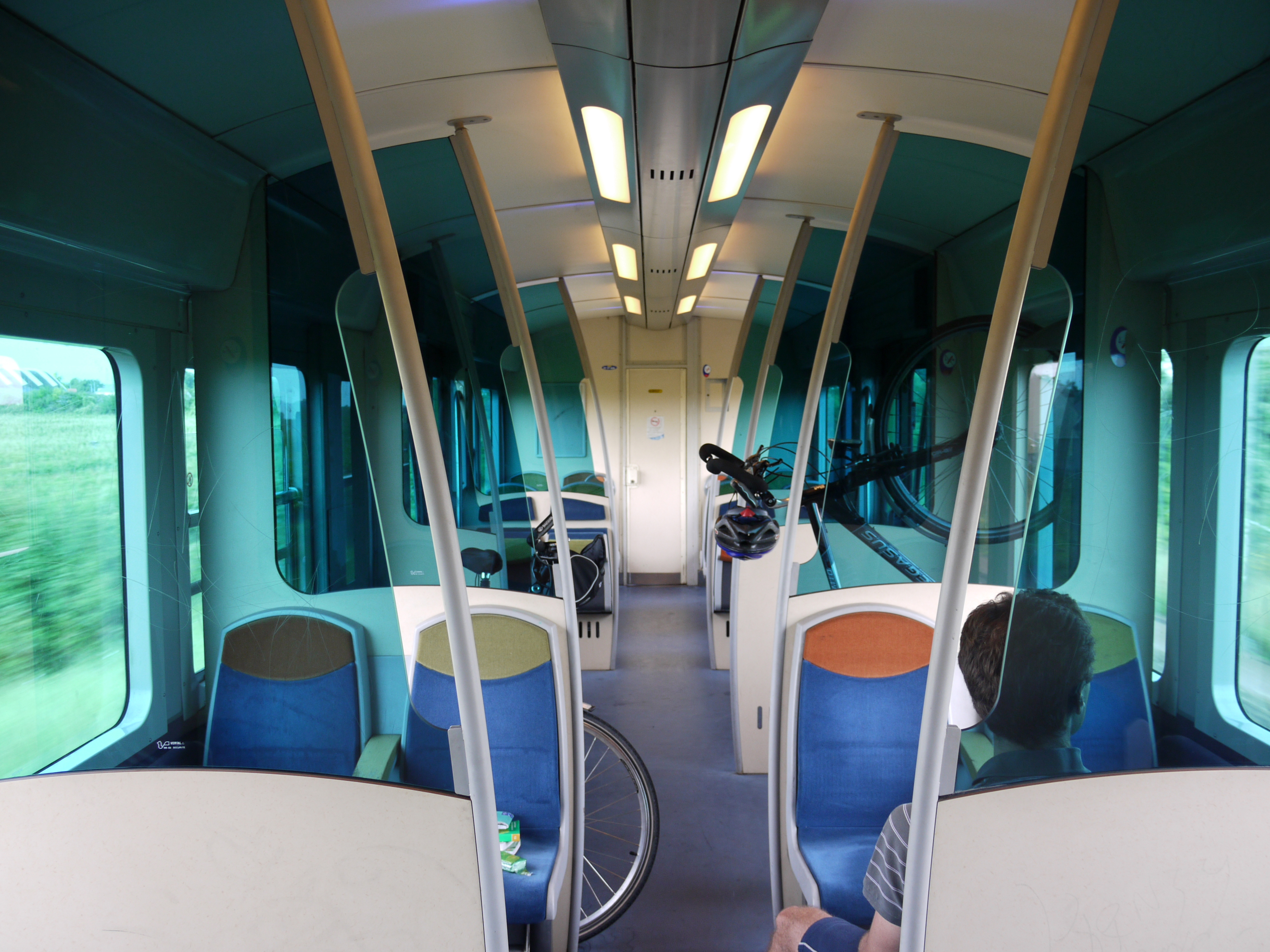 Inox commuter train in Ile de France